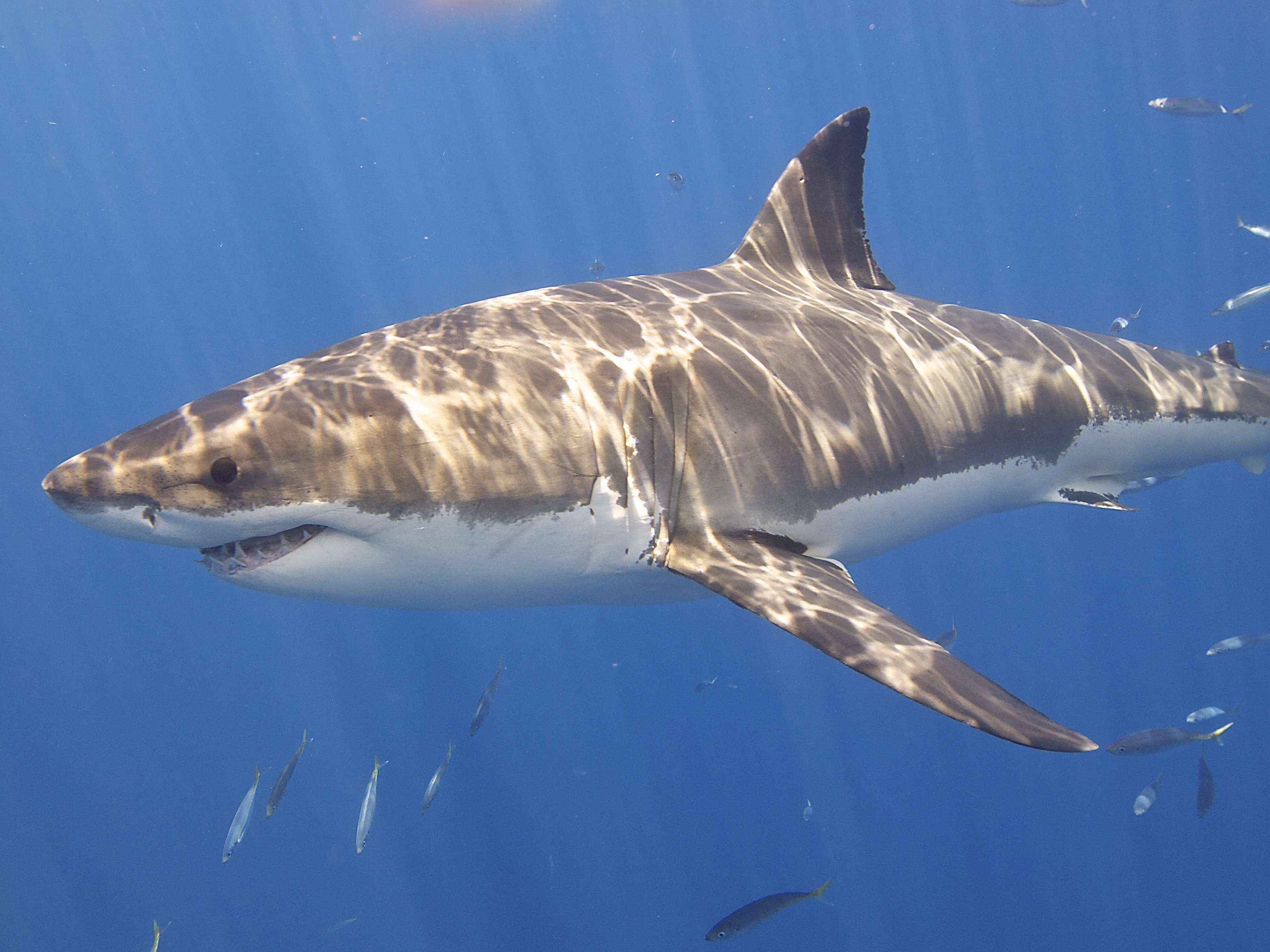 Great White Shark